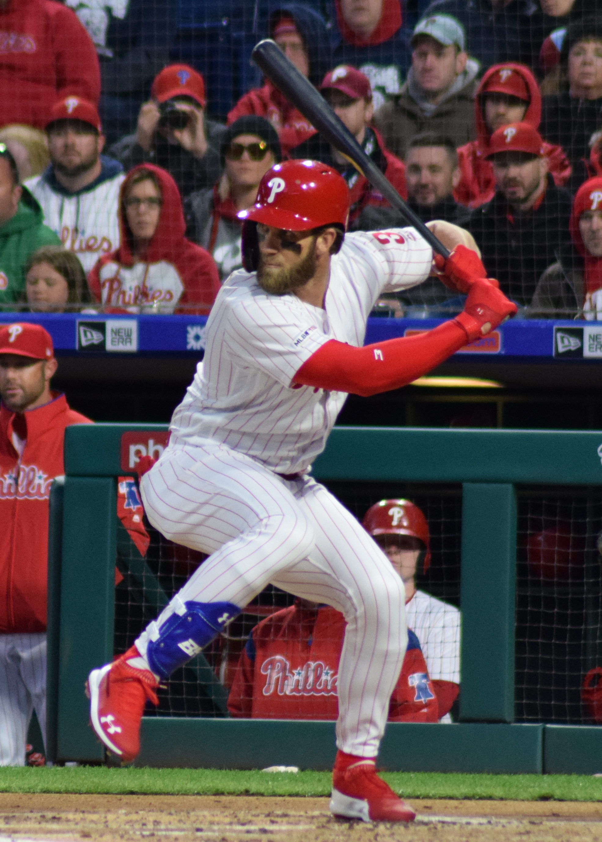 Bryce Harper bats for the Philadelphia Phillies during a 2019 game at Citizens Bank Park in Philadelphia